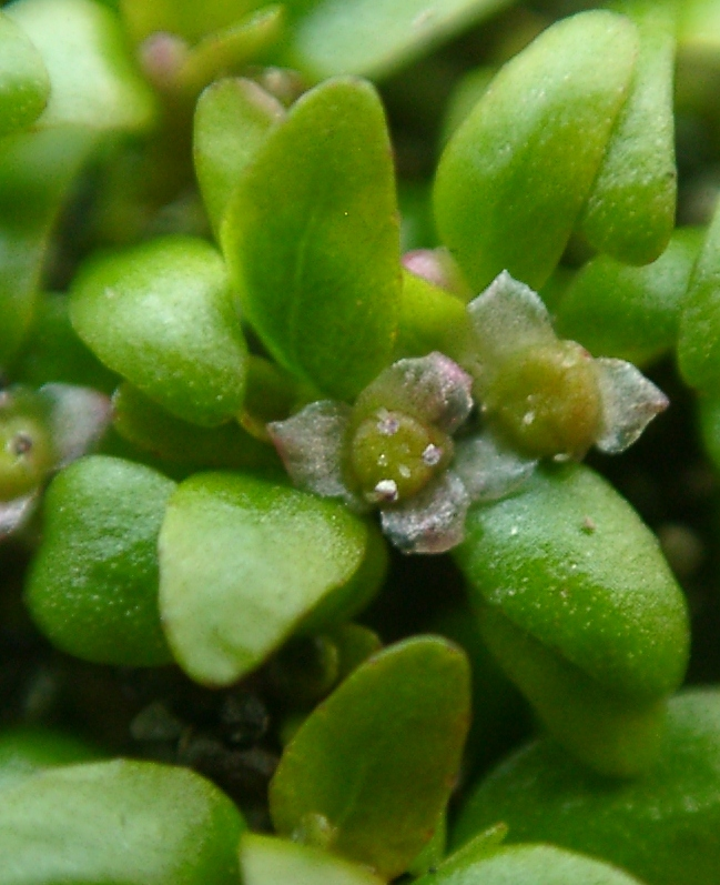 Elatine triandra flower at Odawara-city.